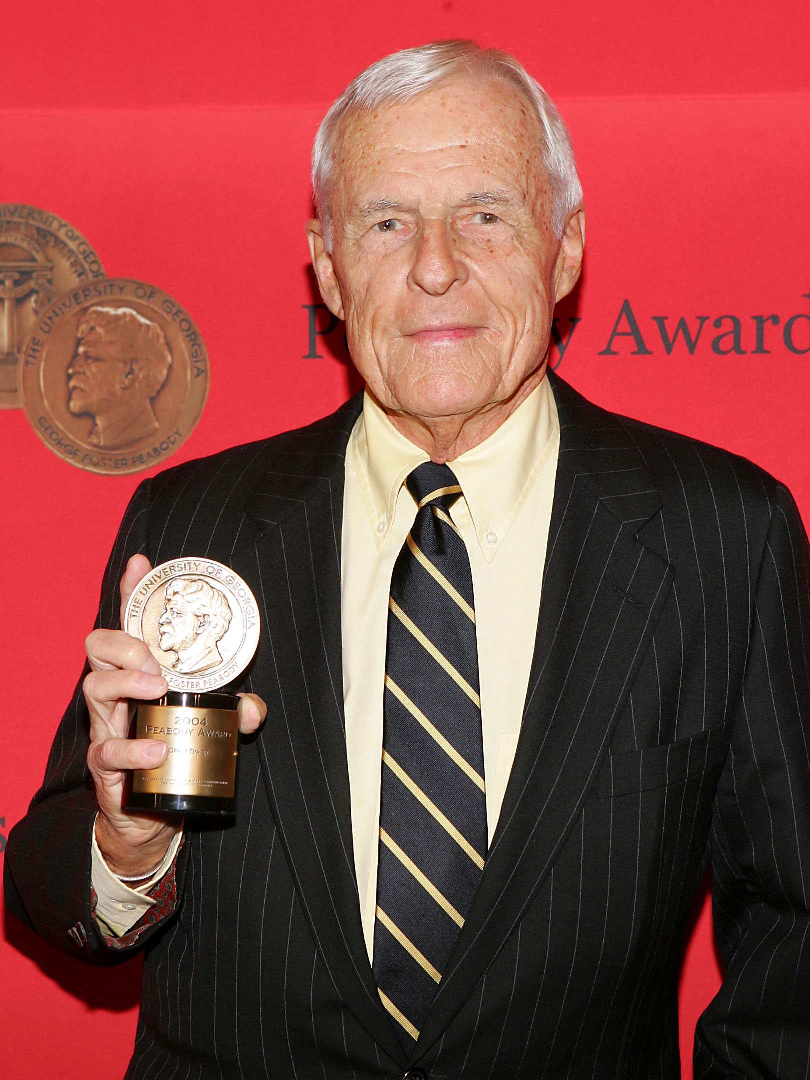 Grant Tinker shows his award trophy at the 64th Annual George Foster Peabody Awards presented by the University of Georgia honors excellence in electronic media. The ceremony was held at the Waldorf Astoria Hotel in New York City. AF32710